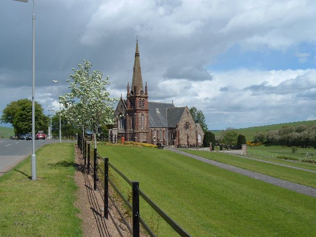 Church at Kirkton of Auchterless, in north east Scotland